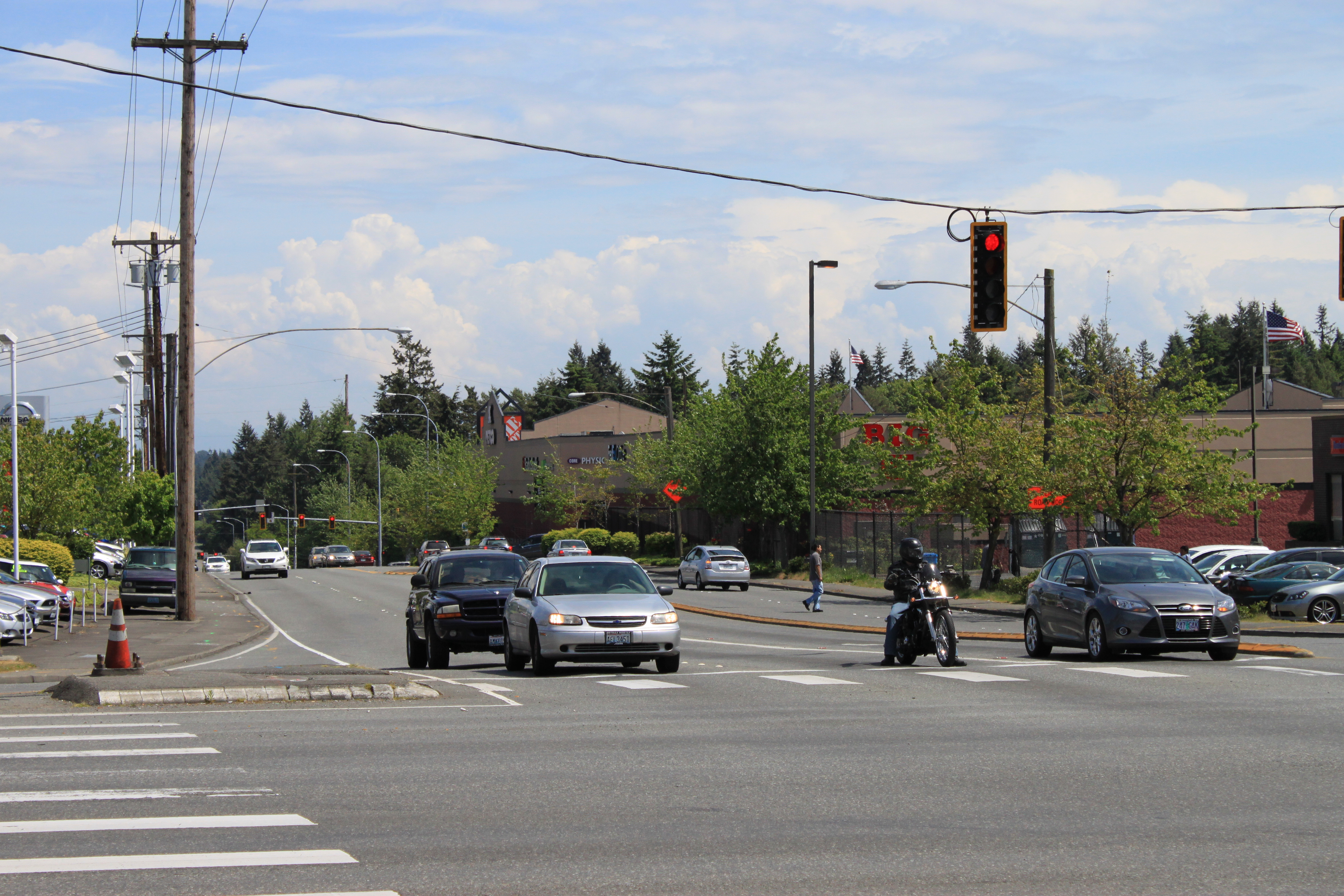 State Route 104 eastbound at its western terminus, State Route 99 (Aurora Avenue) on the border between King and Snohomish counties near the city of Shoreline.